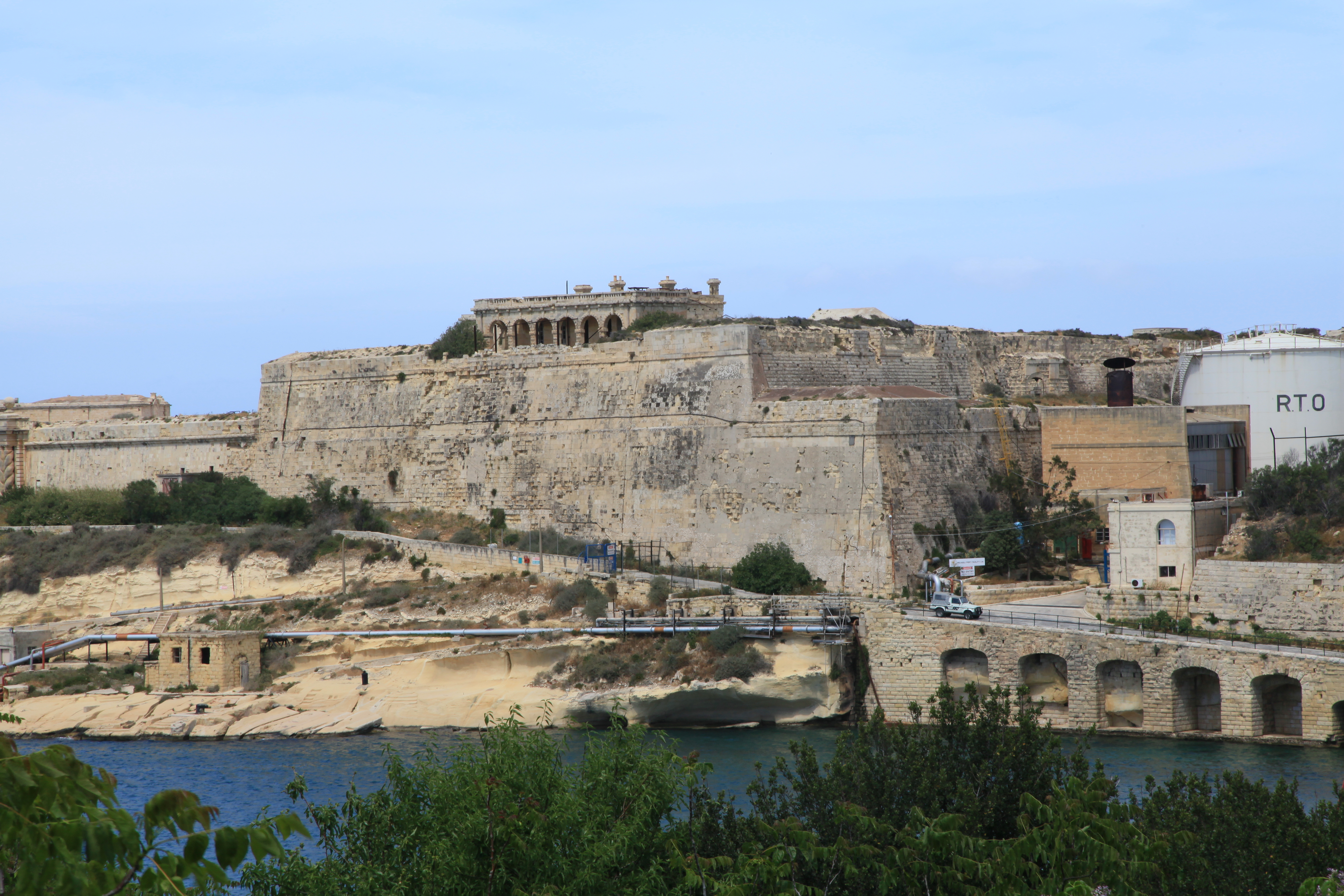 Triq Rinella, Rinella Bay and Fort Ricasoli in Kalkara, Malta